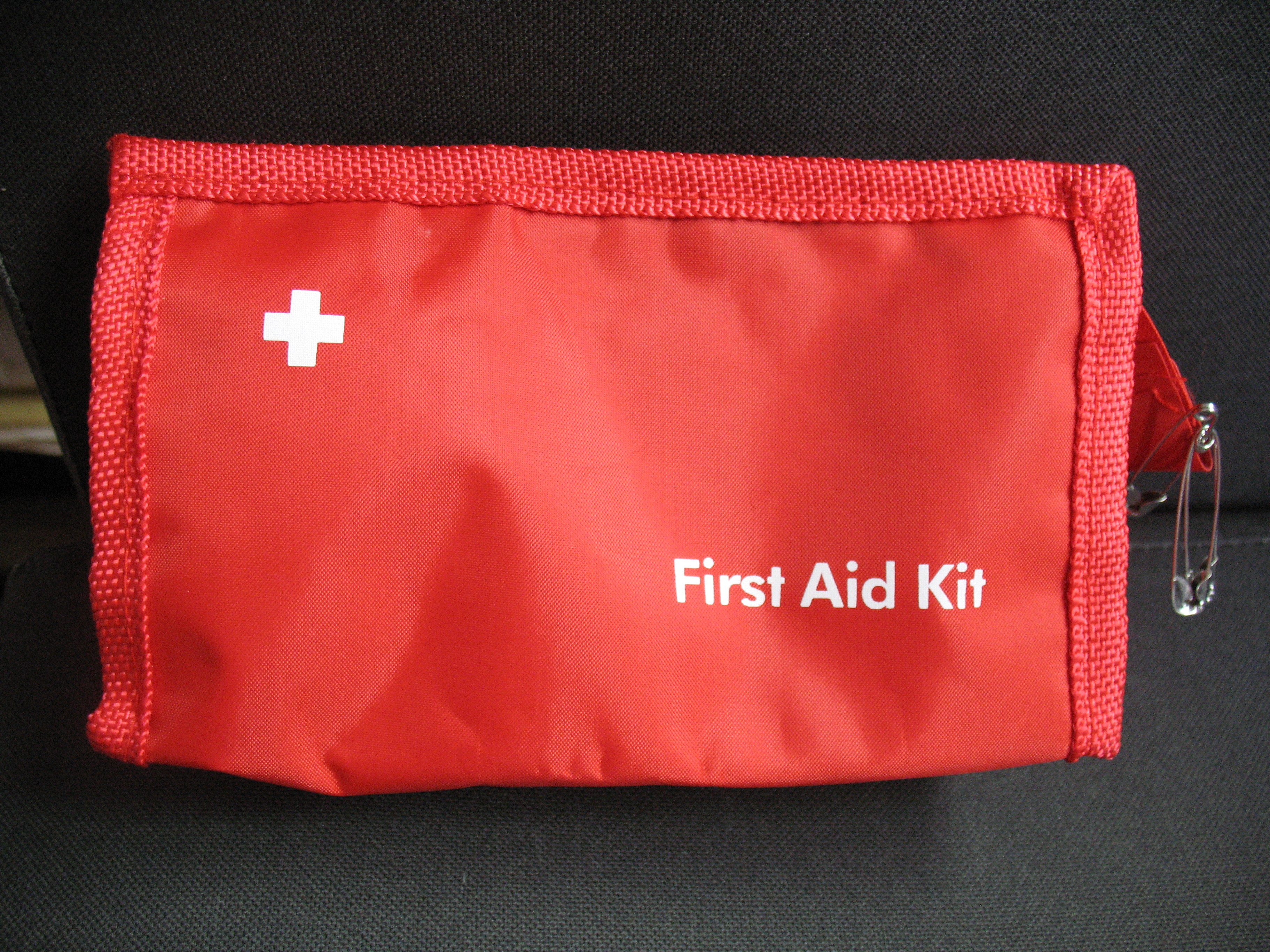 Just a normal first aid bag